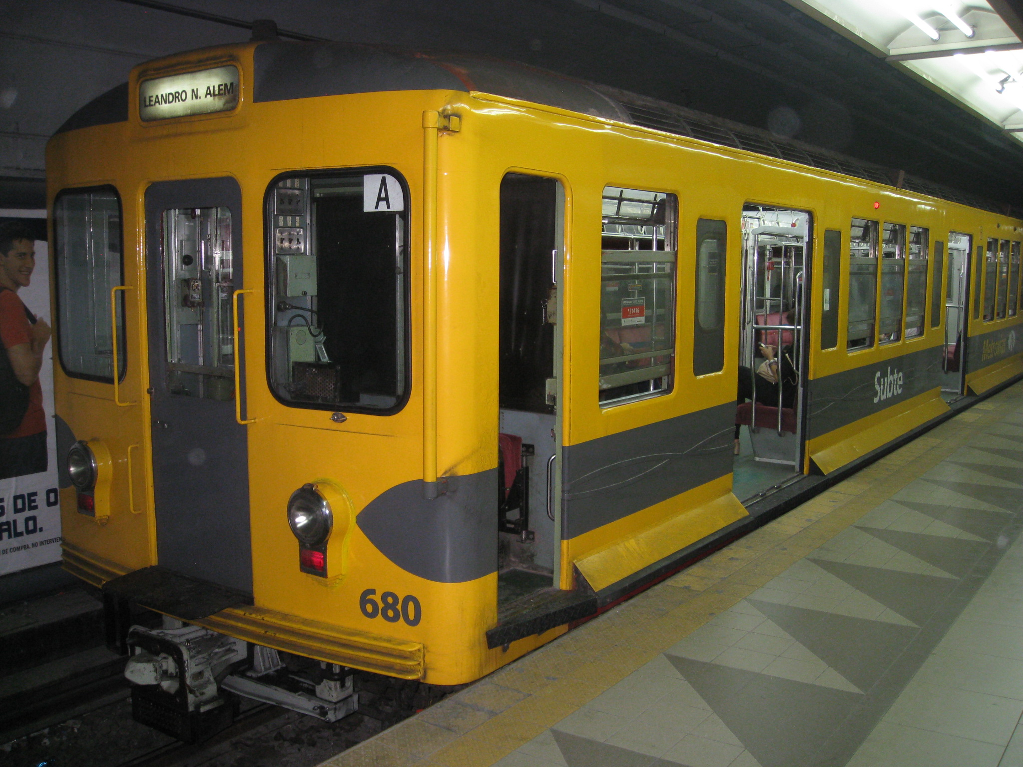 Fleets on subway line B in Buenos Aires.